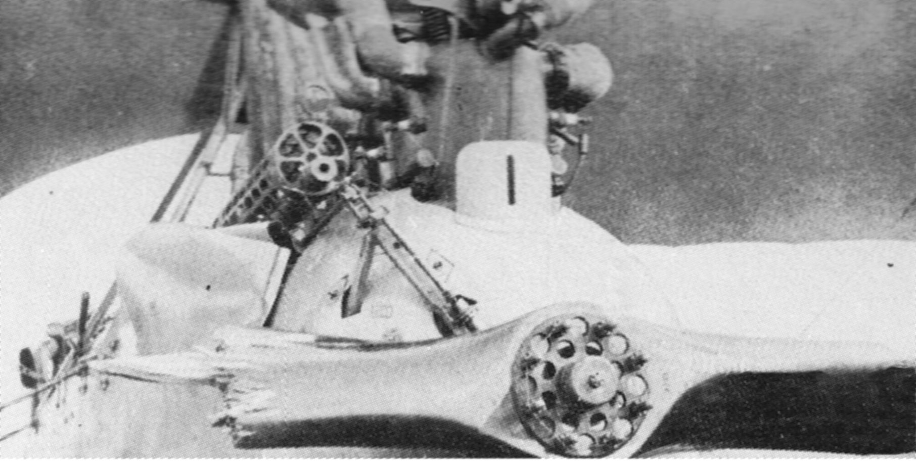 Propeller of an Albatros C.III - one blade severed by faulty synchronisation gear